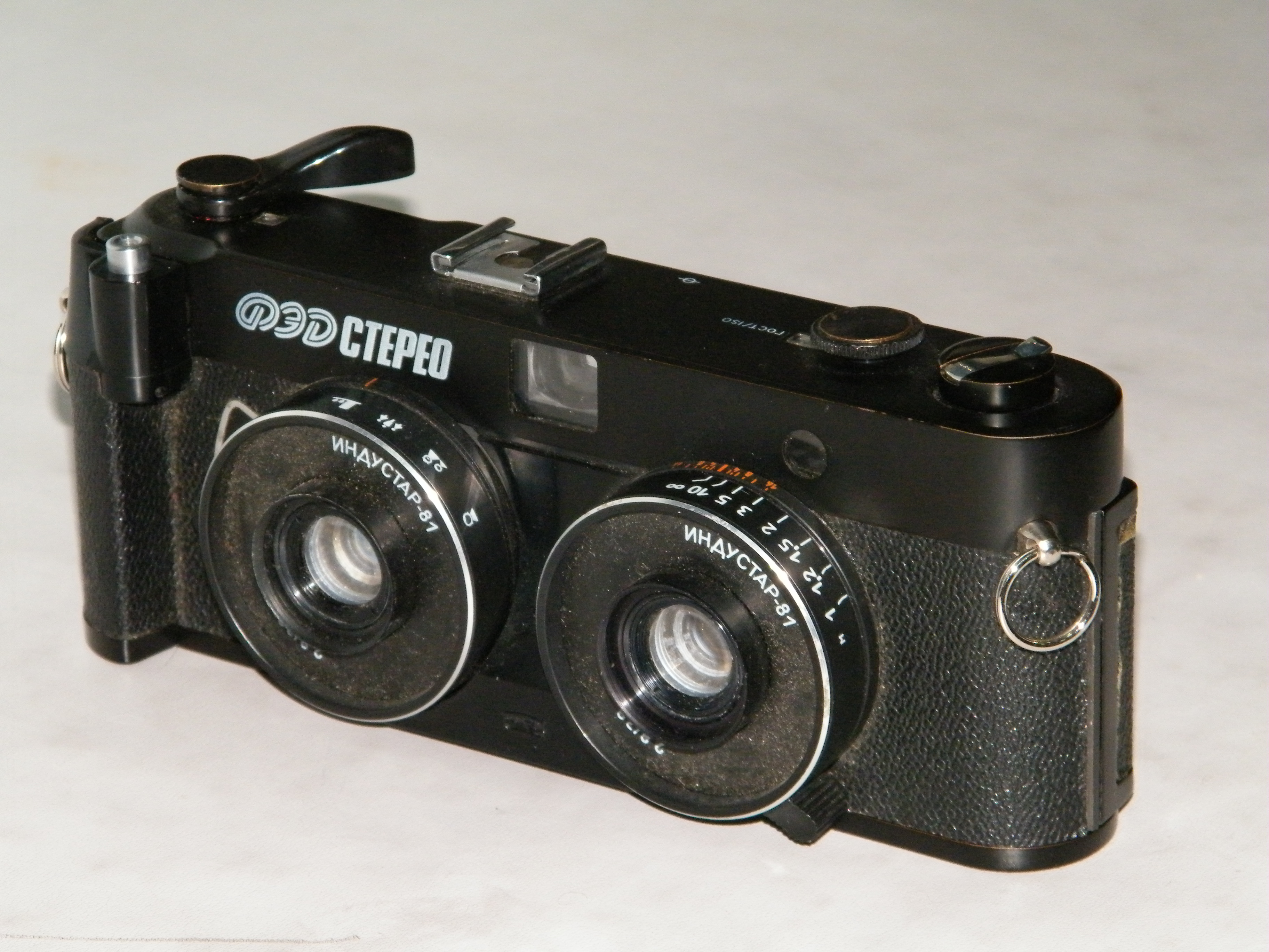 FED-STEREO from Evgeniy Okalov collection